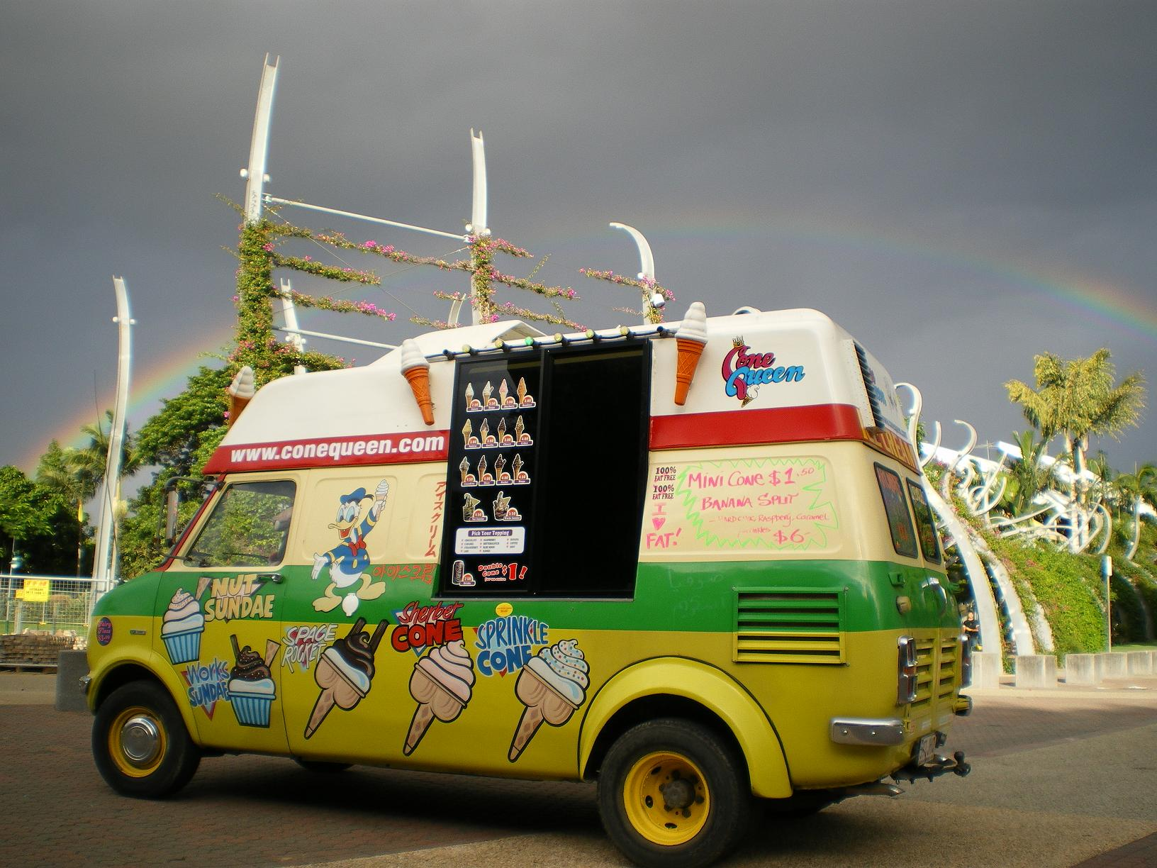 Cone Queen Ice-Cream Truck from Brisbane, Australia. Yum!